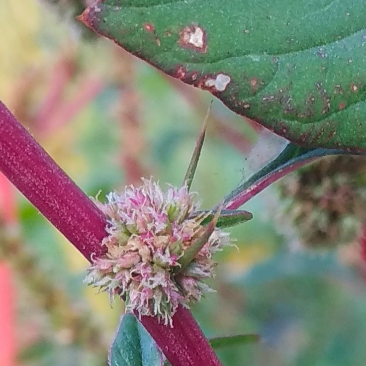 amaranthus spinosus spike (closer)